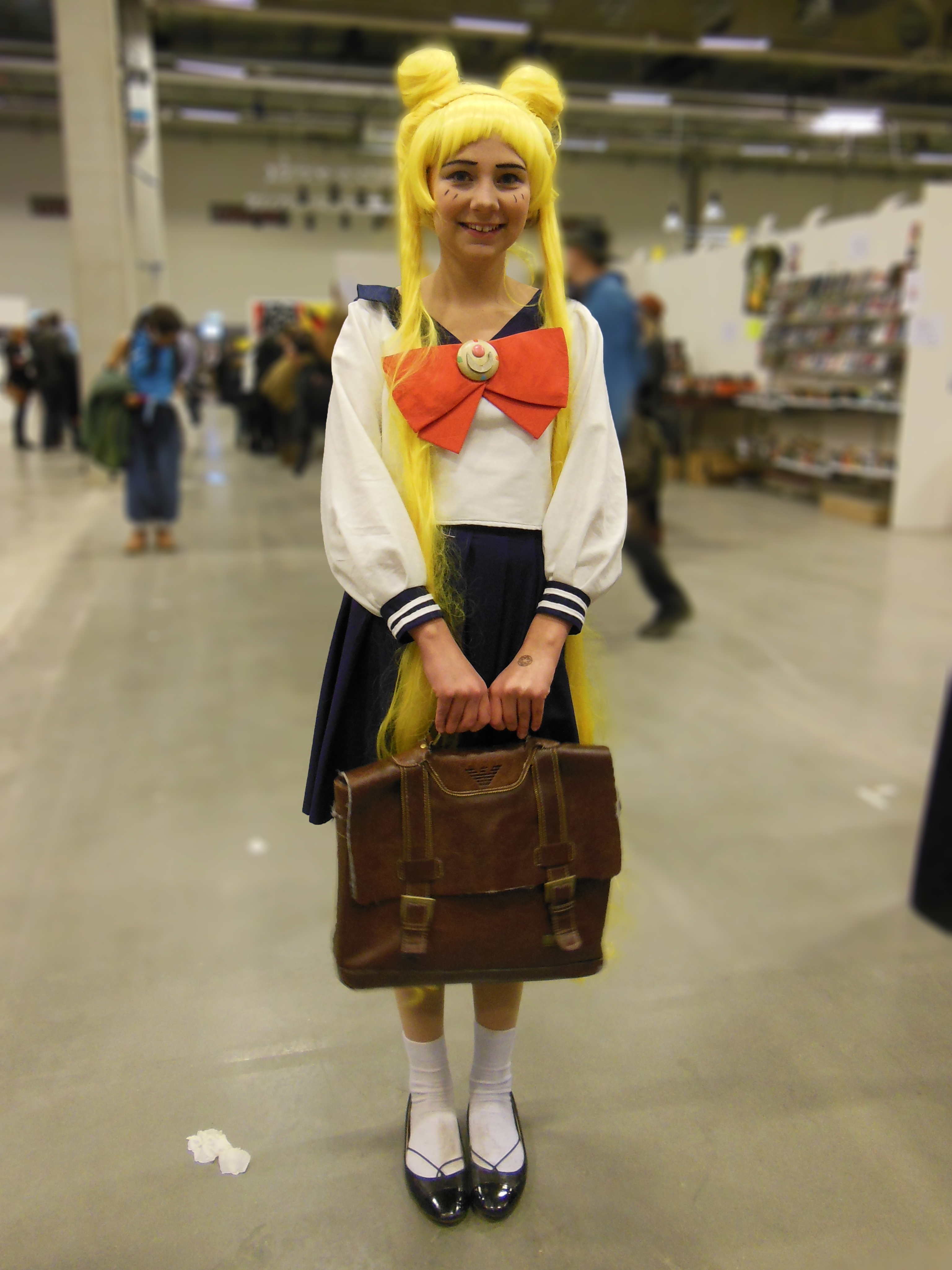 A girl dressed as Annie Tsukino (Sailor Moon) at the Sci-Fi-fair in Malmö 2014